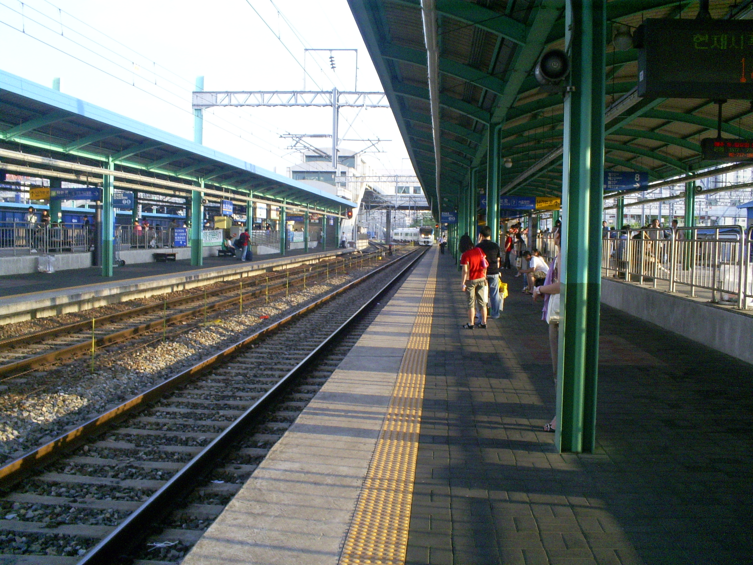 KORAIL Gyeongbu Line Janghang Line Seoul Subway Line 1 Cheonan Station